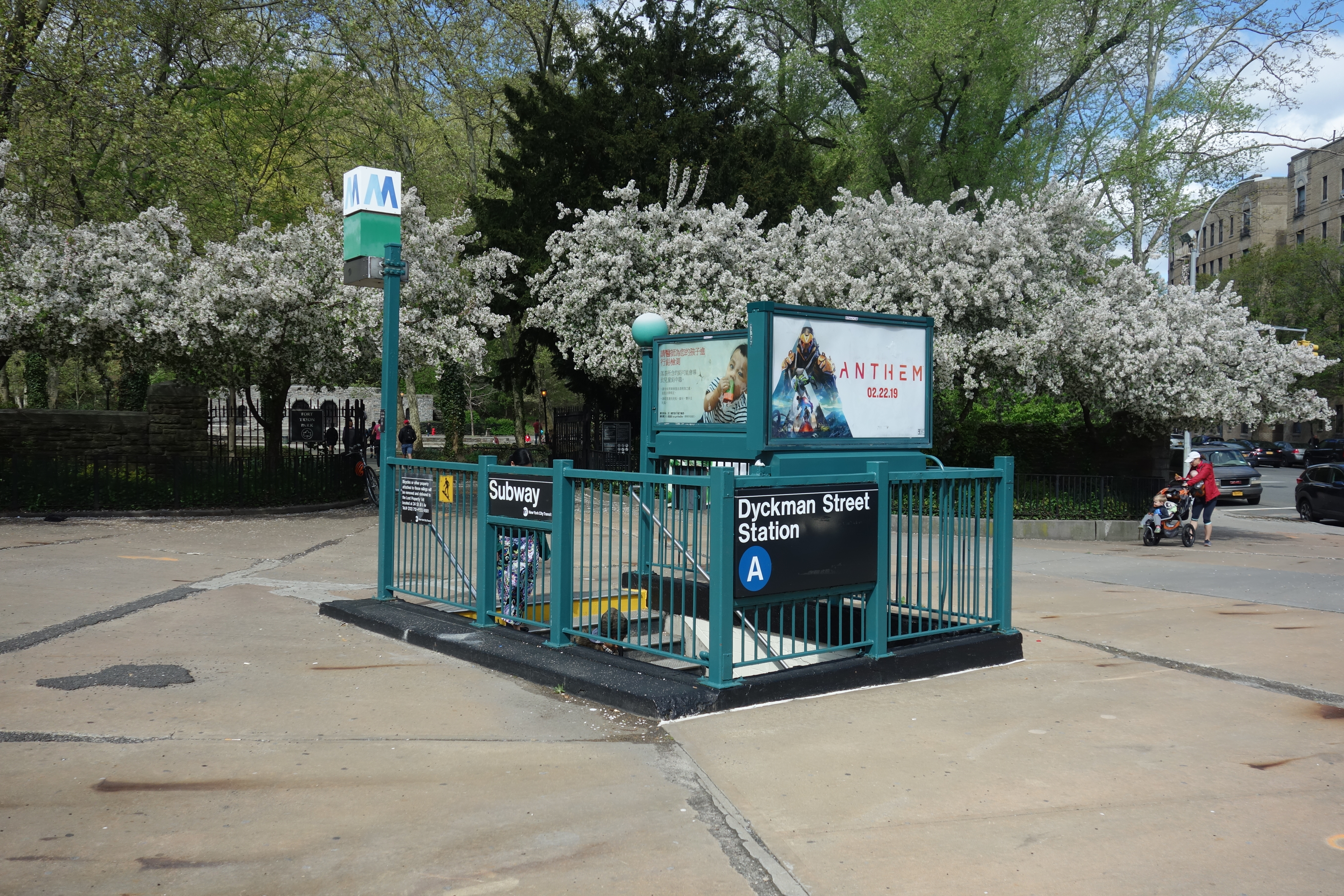 The entrance to the Downtown side of the Dyckman Street IND station in front of Anne Loftus Playground at the northern tip of Fort Tryon Park, on the west side of Broadway at Riverside Drive and Dyckman Street in Inwood / Fort George, Manhattan. Entrance to the station is only available on this side, as the Uptown side is exit only.